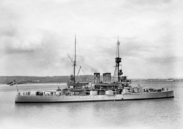 The Swedish coastal defence ship HMS Manligheten in her original appearance.